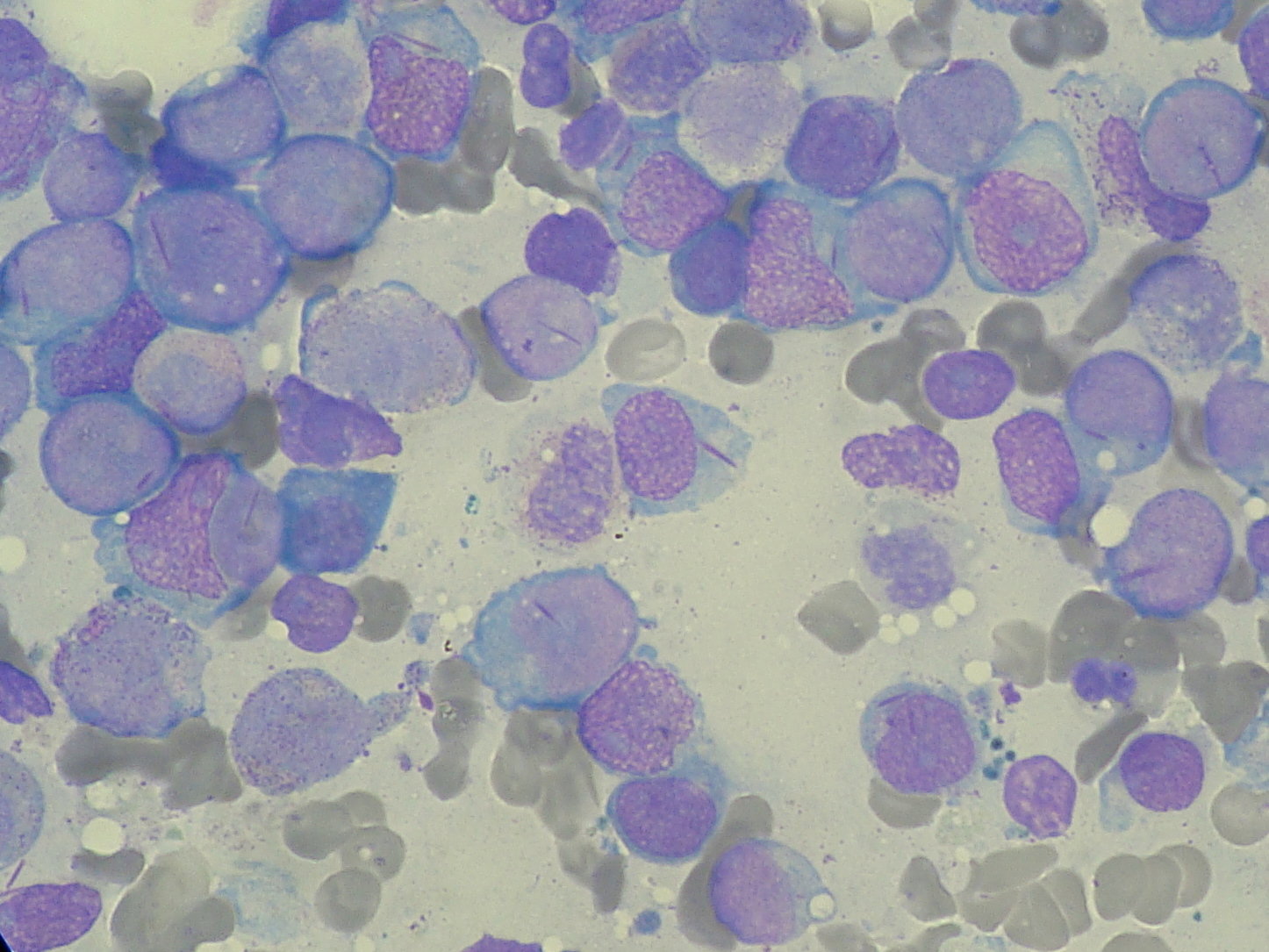 Myeloblasts with Auer rods seen in Acute Myeloid Leukemia (AML), advanced stage. Bone Marrow / May-Grunwald Giemsa (MGG) stain